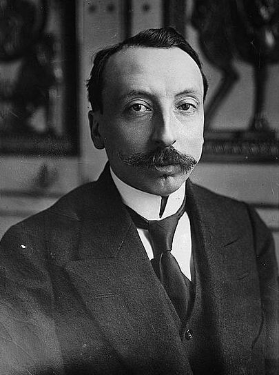 Léon Bérard, French politician and lawyer.